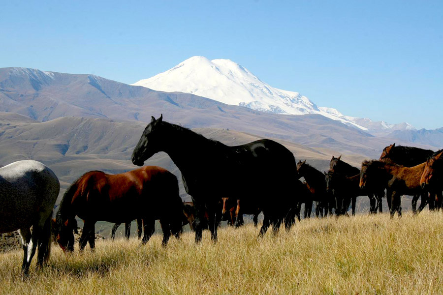 Kabardian horses to Ibrahim Yaganov